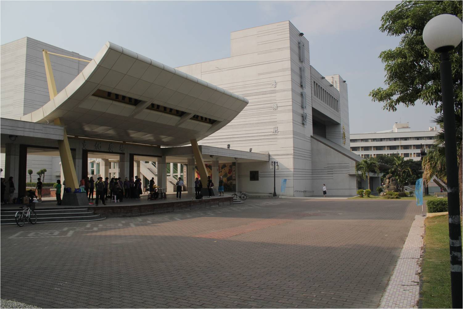 Culture Affairs Bureau of the Chiayi City Government